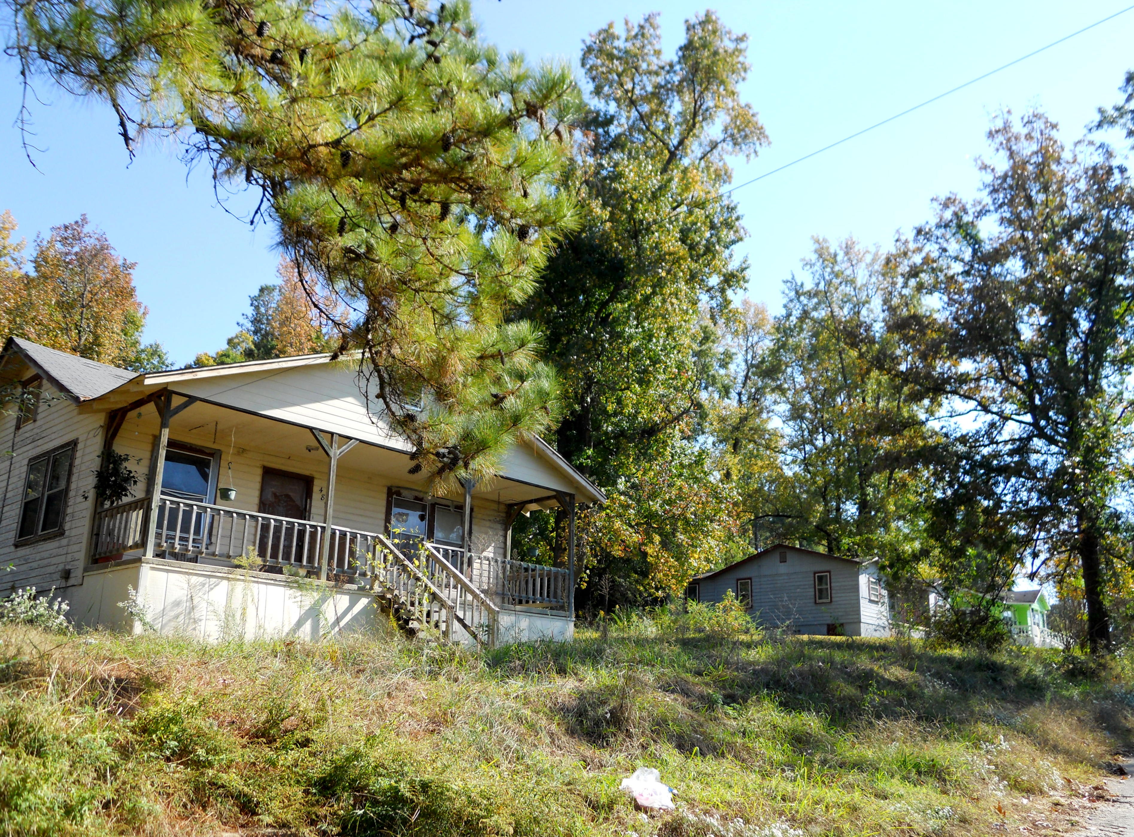 This is a photograph of Gantt's Quarry, Alabama.